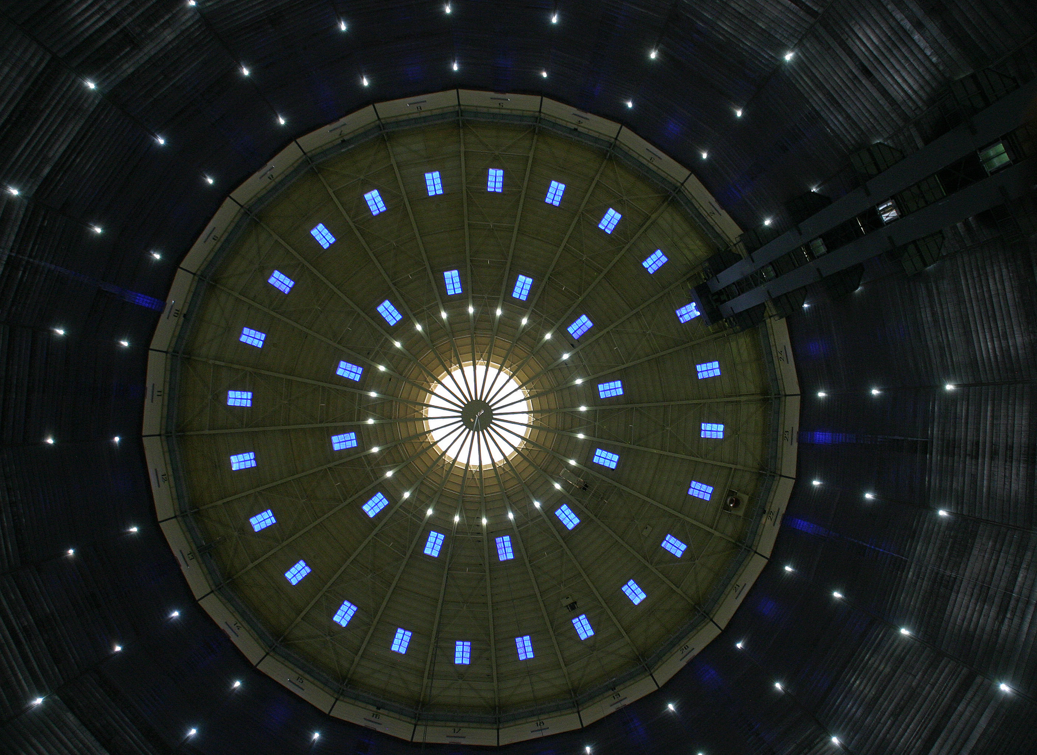 Former Gasometer Oberhausen (now exhibition hall), view from bottom to top